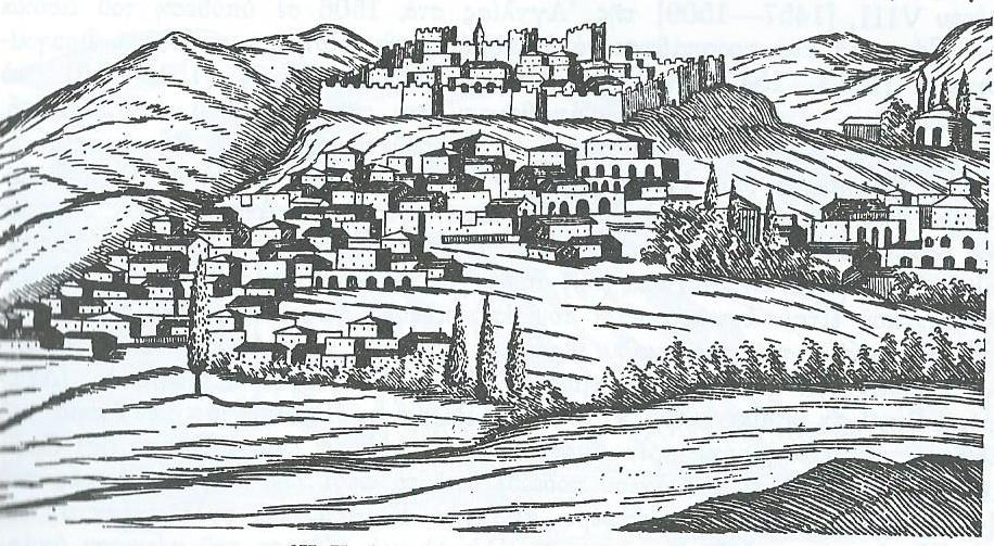 castle of "Arkadia" (Kyparissia) in Peloponnese